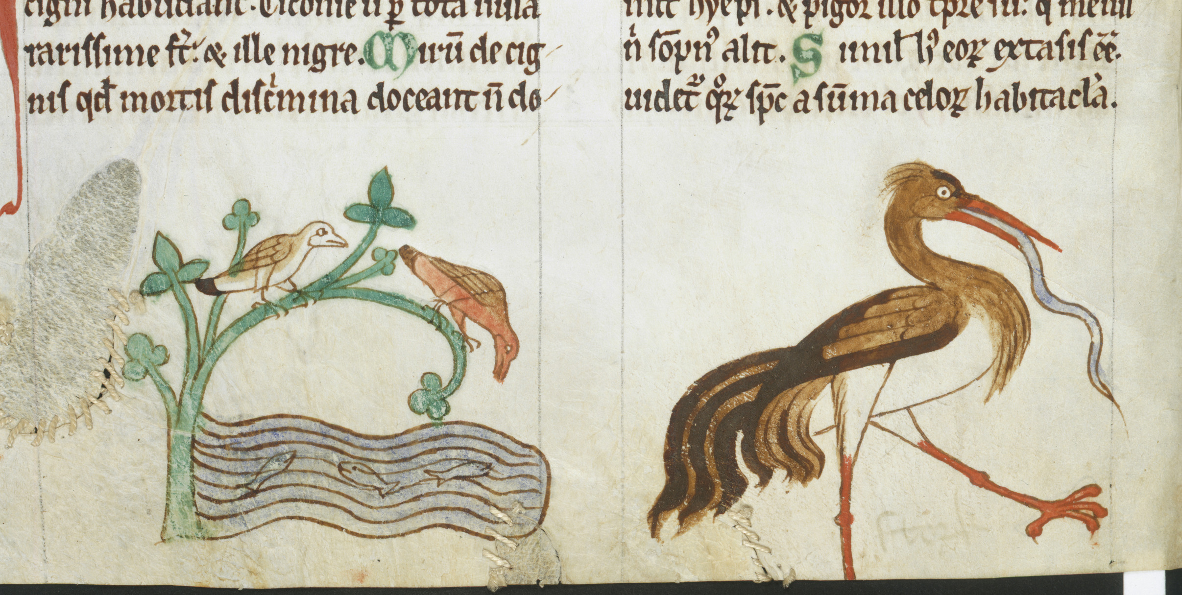 Birds found in Ireland (Miniatures only) On the left, two kingfishers, perched in a tree above a river containing fish; on the right, a stork in the act of eating an eel.